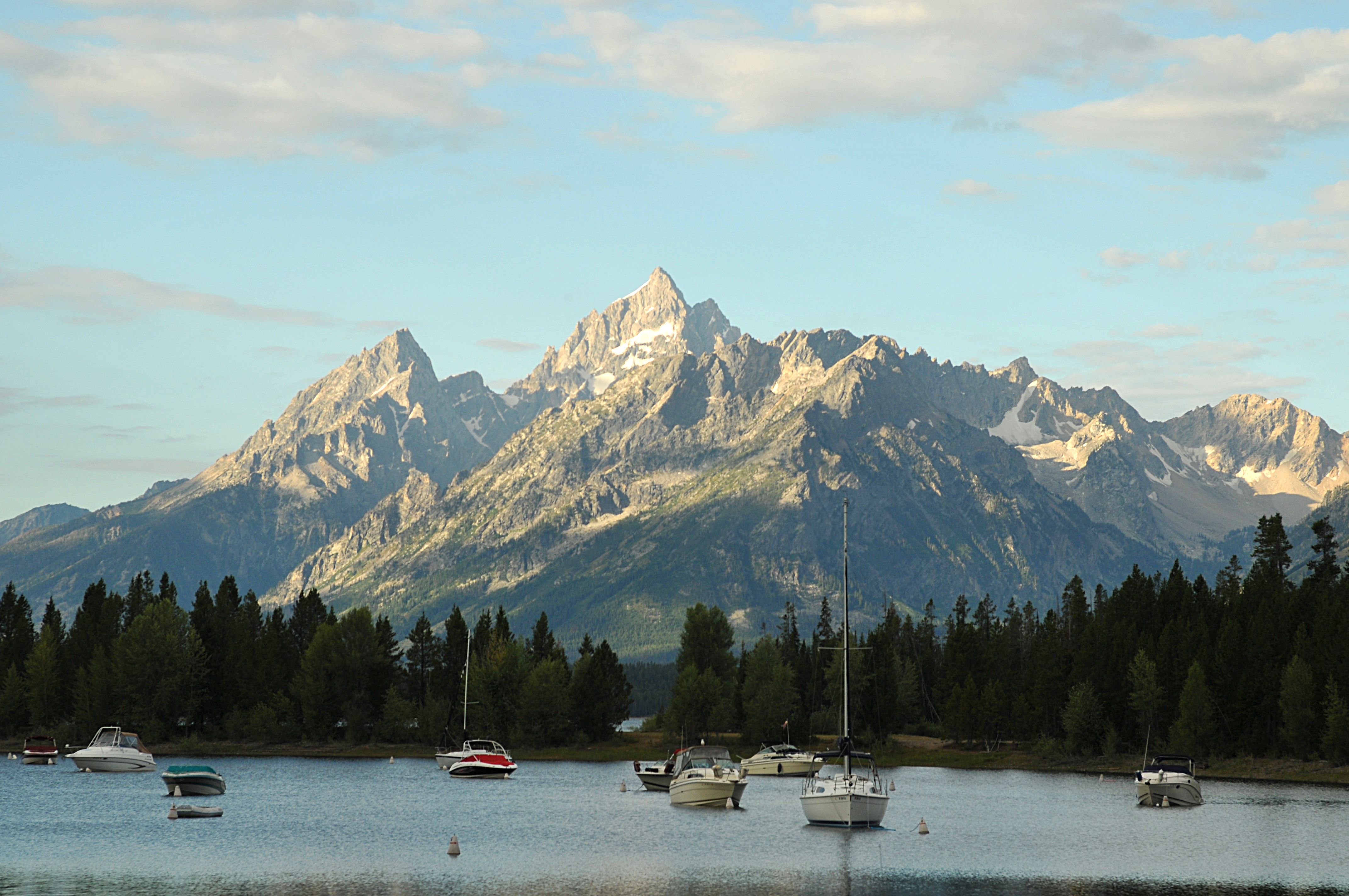 Boats in Colter Bay, part of Jackson Lake.